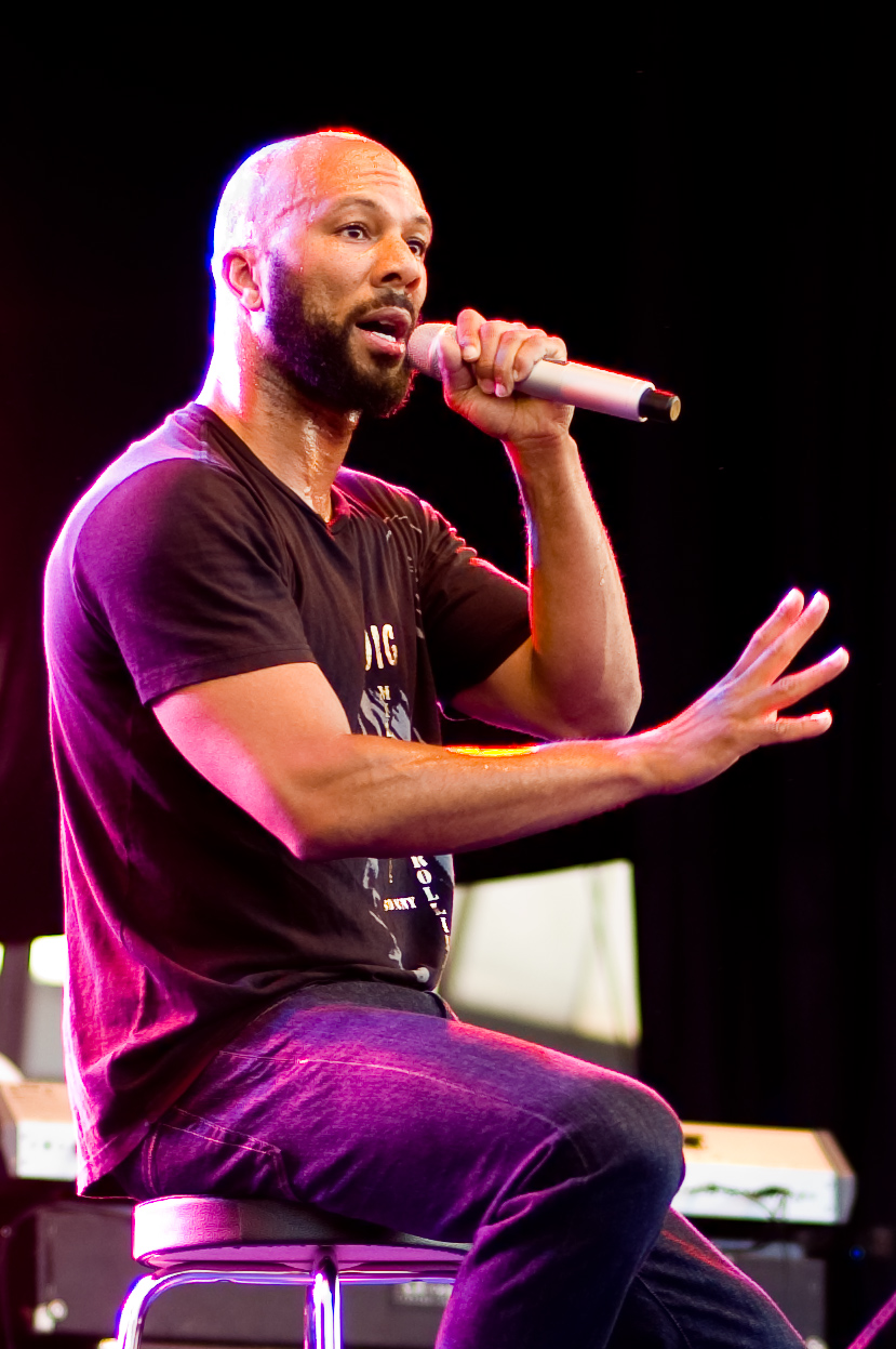 Rapper Common performing at the Ilosaarirock festival on the 13th of July 2008 in Joensuu, Finland.